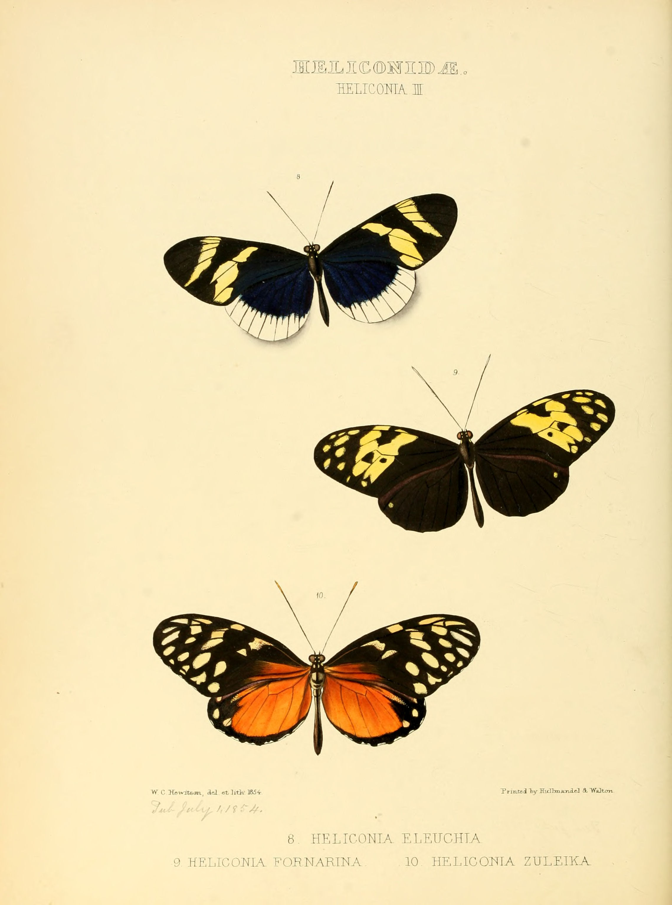 Plate: Heliconia III Heliconia eleuchia. Fig. 8. Accepted as Heliconius eleuchia Hewitson, 1854. Heliconia fornarina. Fig. 9. Heliconia zuleika. Fig. 10. These 2 accepted as Heliconius hecale (Fabricius, 1775).